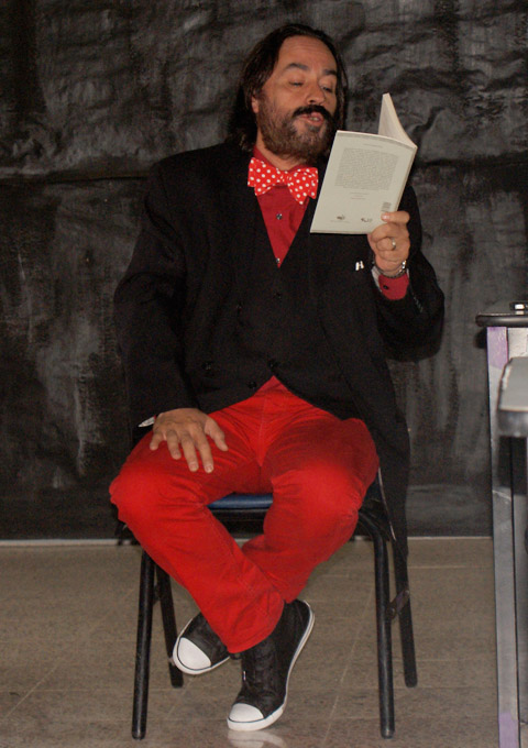 El poeta mexicano Mario Bojórquez.